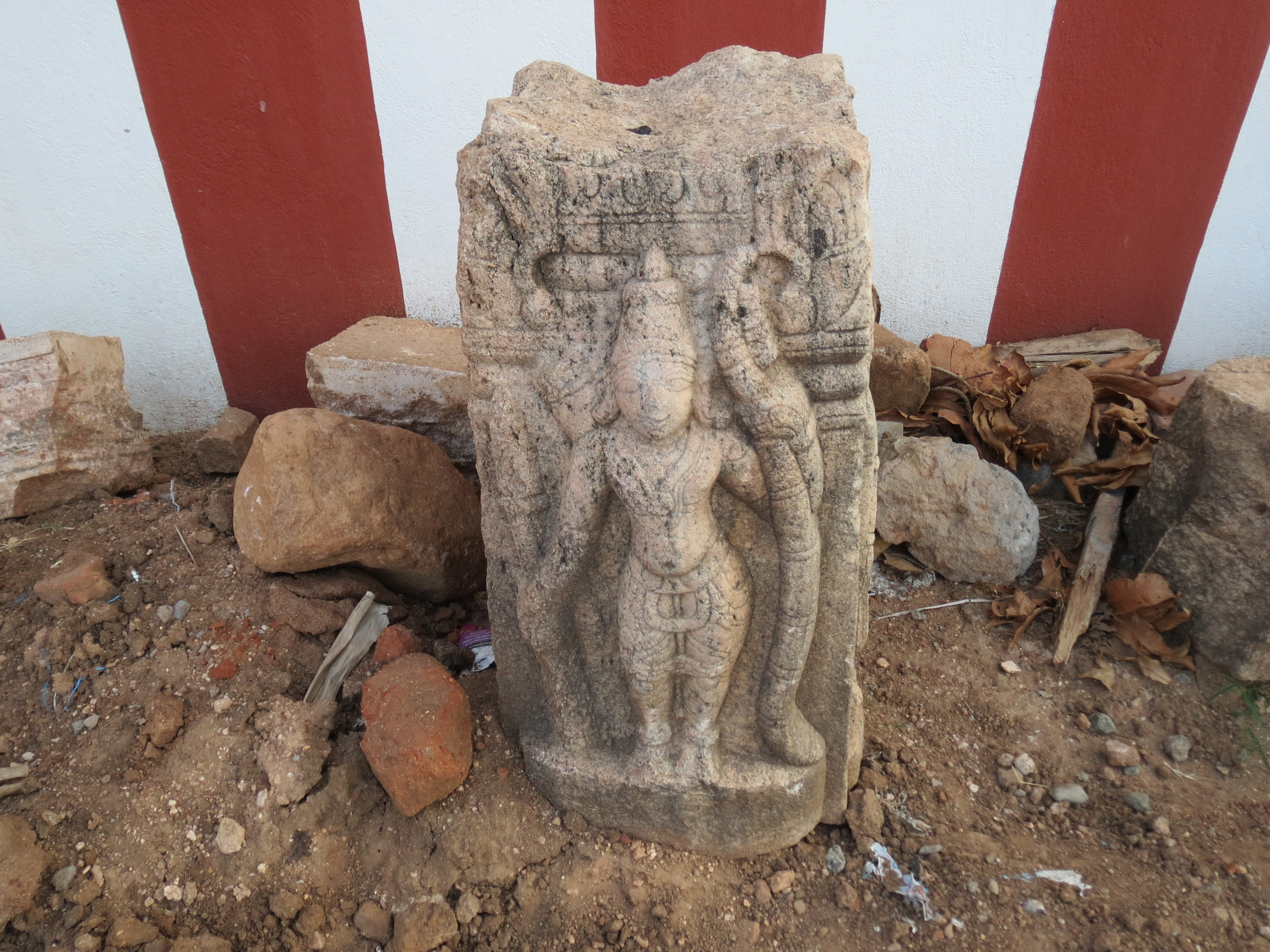 Rama avathara sculpture on a ruined piller of old venkatesaperumal temple, parameswaranpalayam (coimbatore)